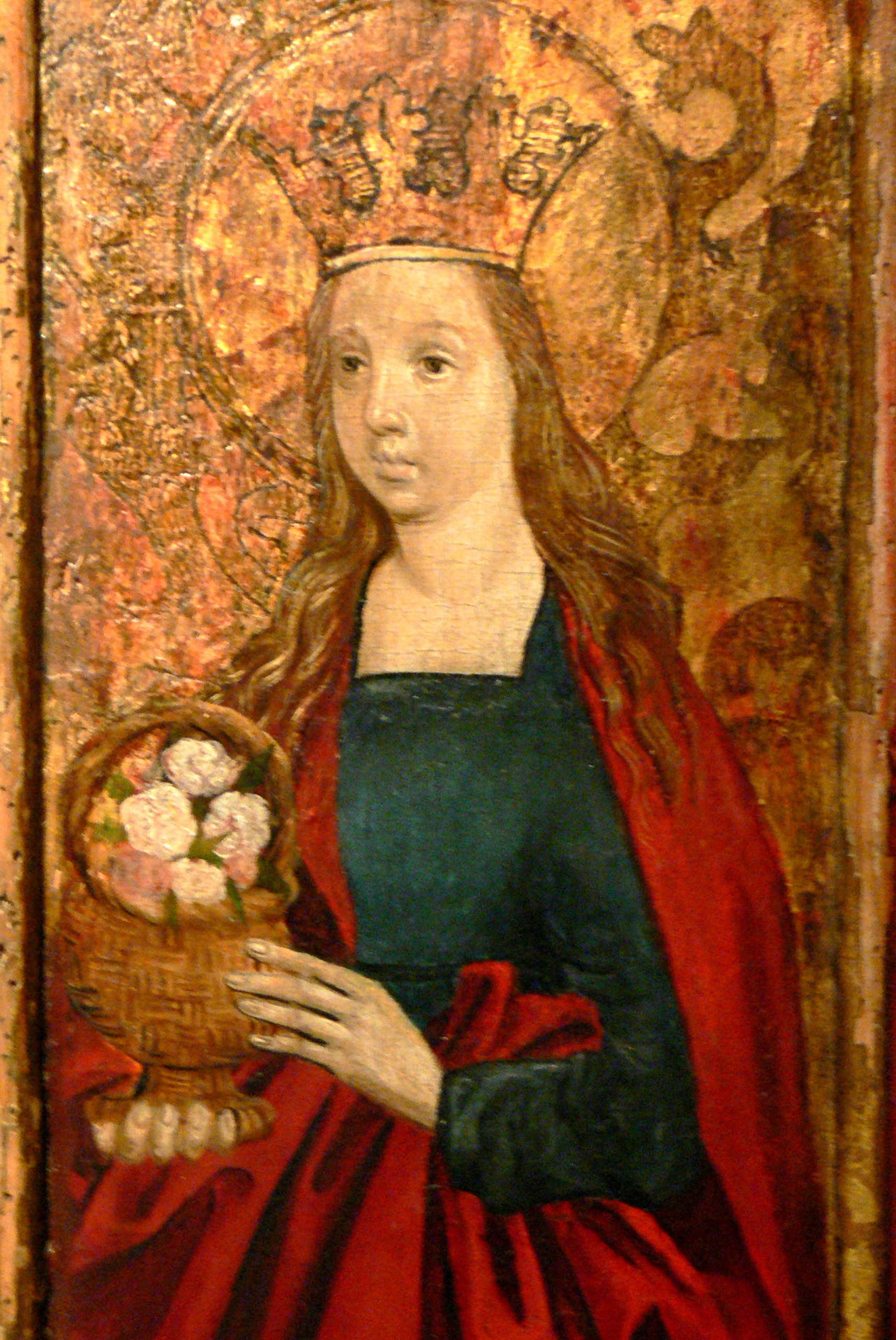 Museum of Mining and Gothic art in Leogang ( Salzburg state ). Gothic collections: Altarpainting of Saint Dorothy ( 1480s ) from Southern Tyrol.